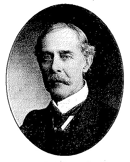 1906 Sir David Brynmor Jones Lib Swansea District